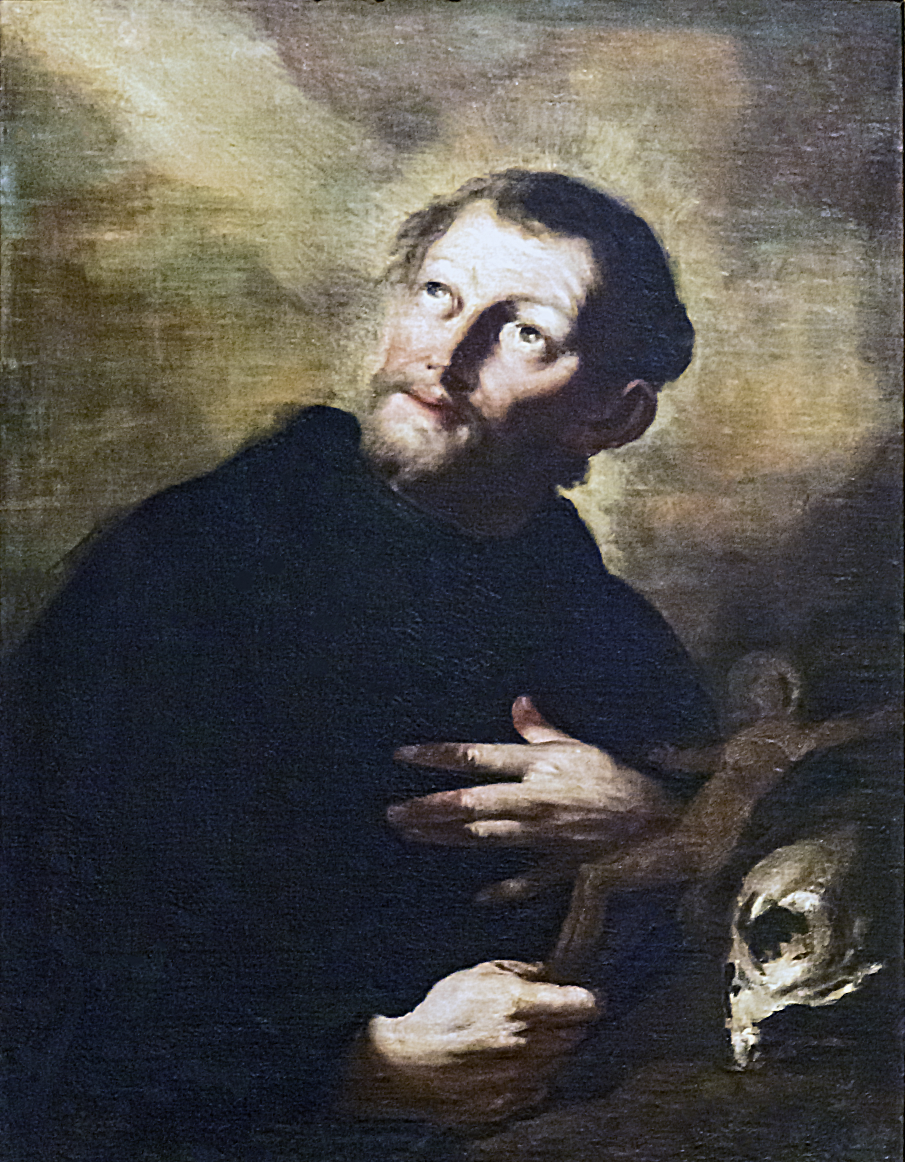 Santa Maria Gloriosa dei Frari, Sacristy - Portrait of Saint Philip Neri by Giuseppe Nogari. oil on canvas.